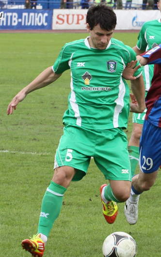 Sergei Omelyanchuk with FC Tom Tomsk